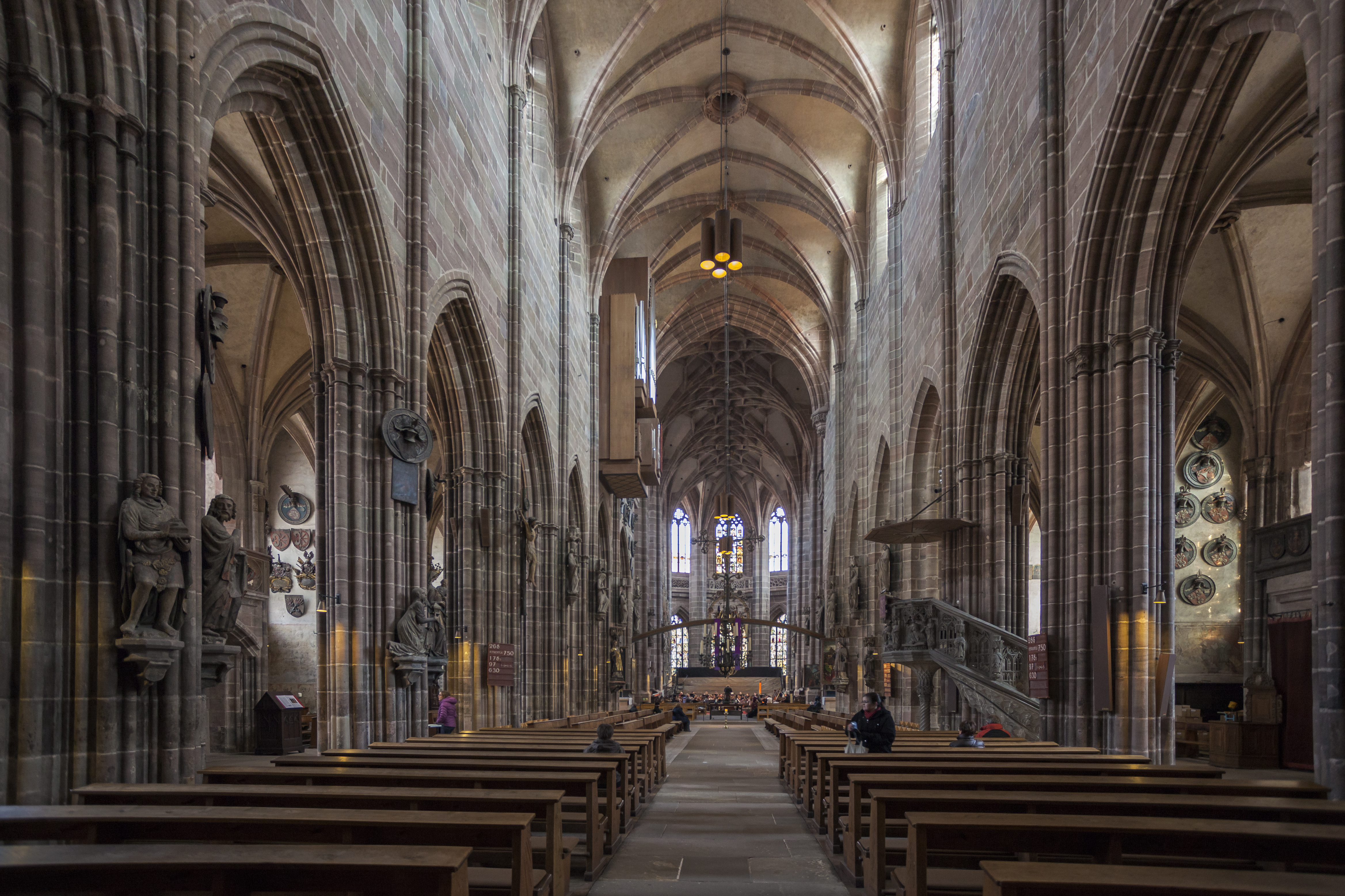 St. Lorenz church, Nuremberg, Germany